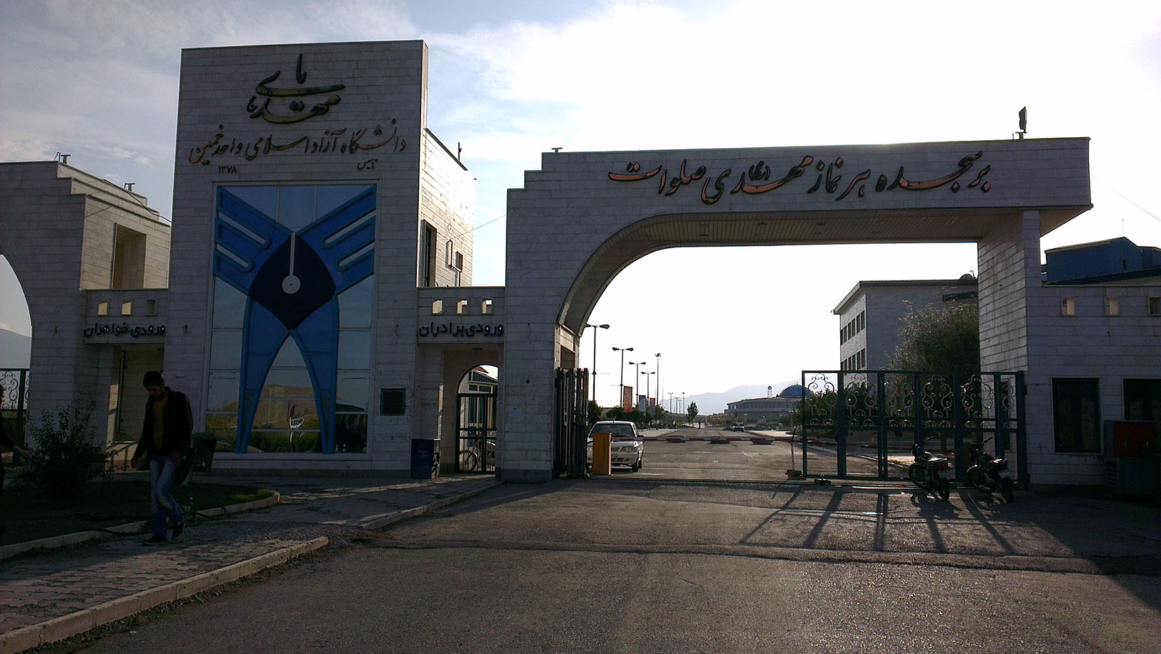 Portal of Islamic Azad University of Khomein. at sunset.